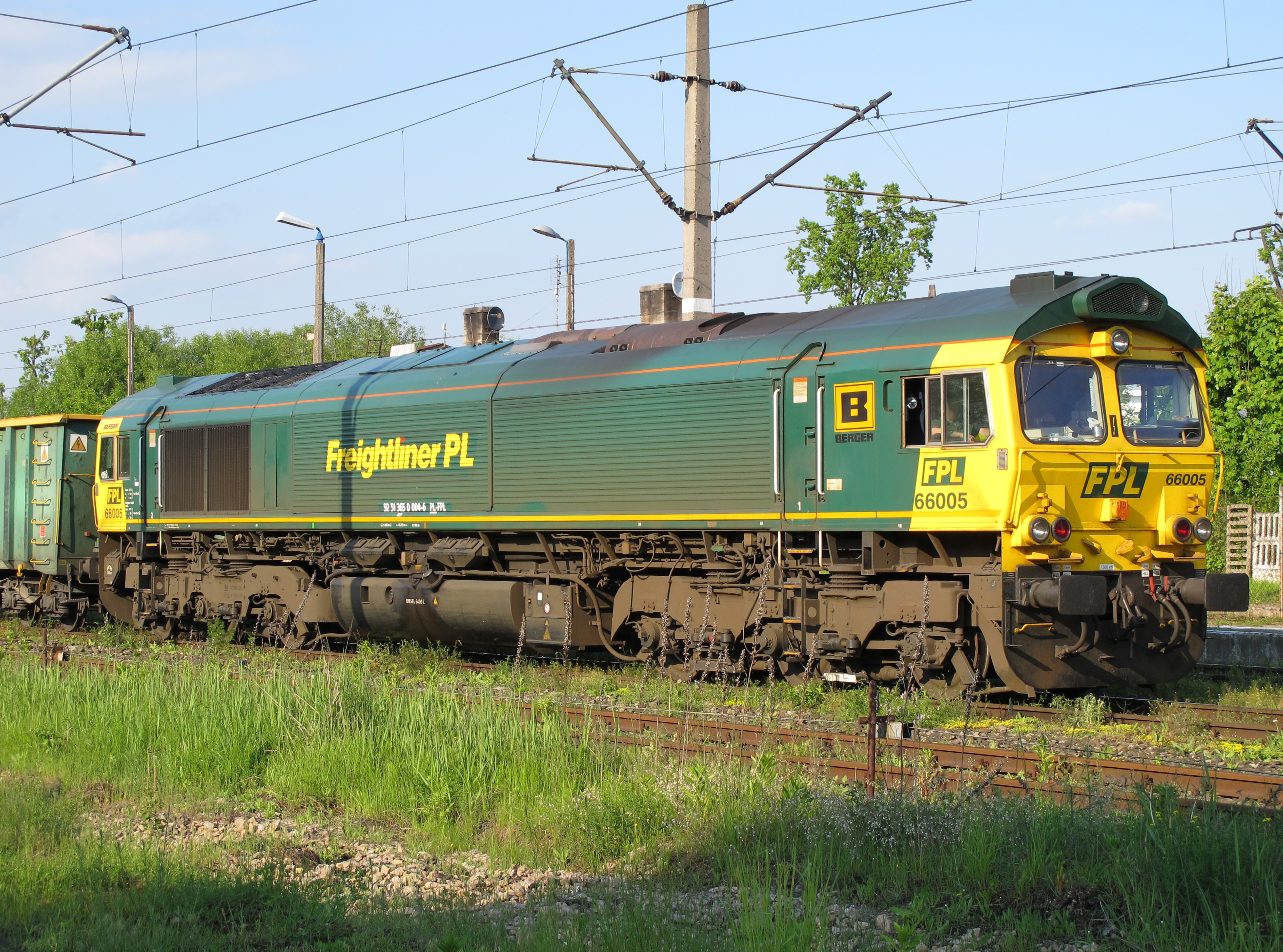 JT42CWRM/Class 66: 66005 at Wasilków station (podlaskie, Poland).